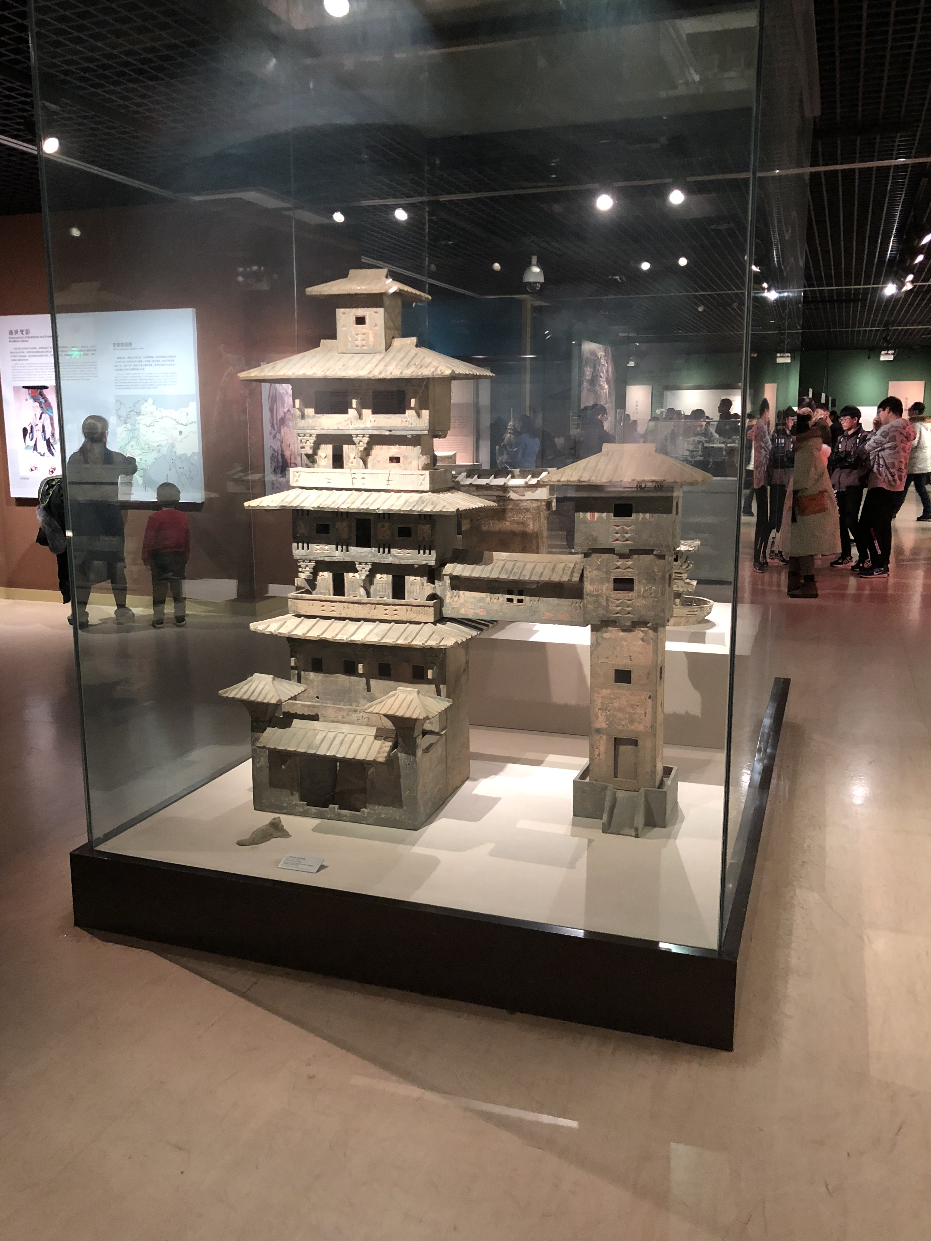 Seven-storied painted pottery storage building with bridge. Eastern Han Dynasty. Excavated from tomb No.6 at Baizhuang, Jiaozuo.